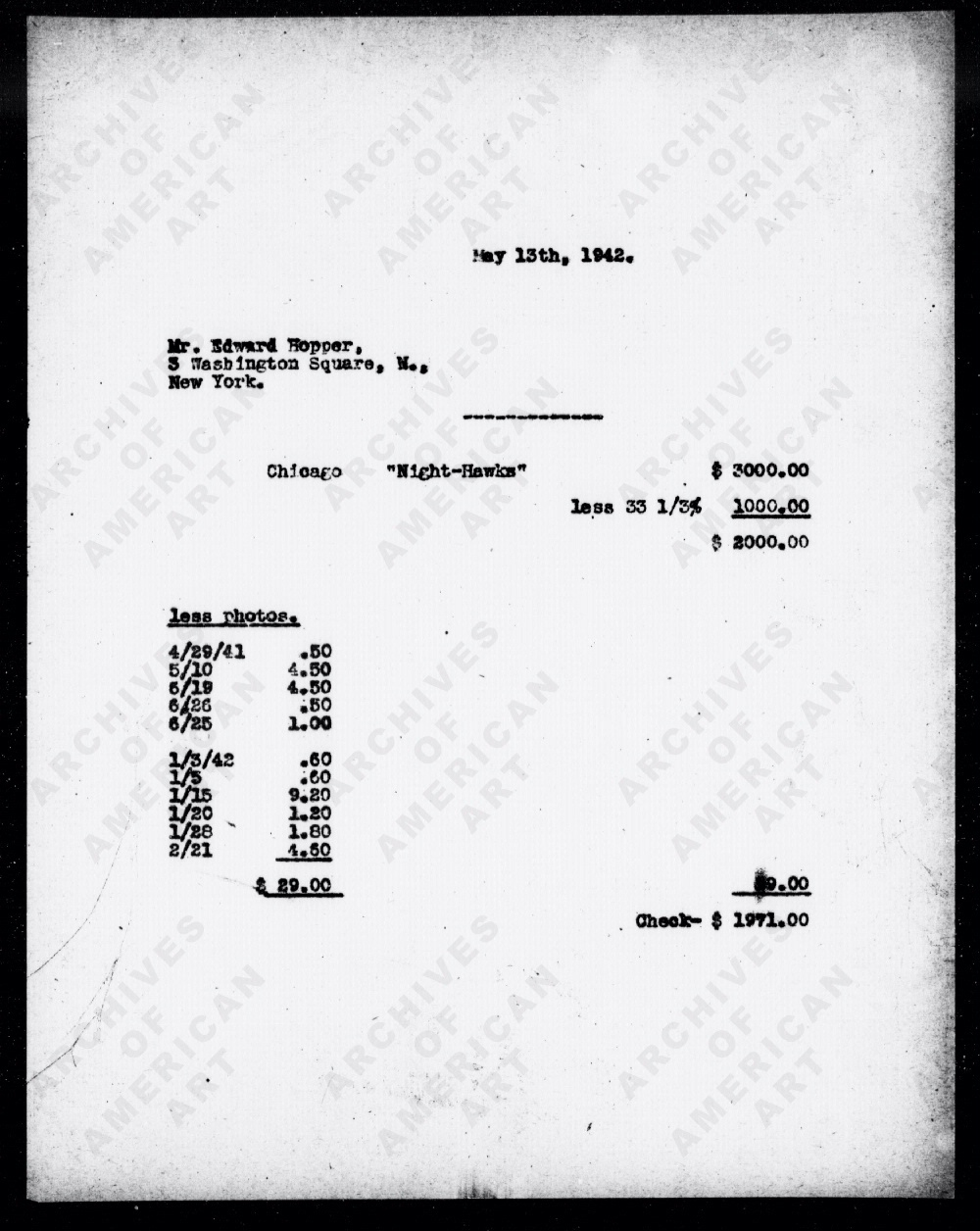 Nighthawks invoice sent to Ed_Hopper